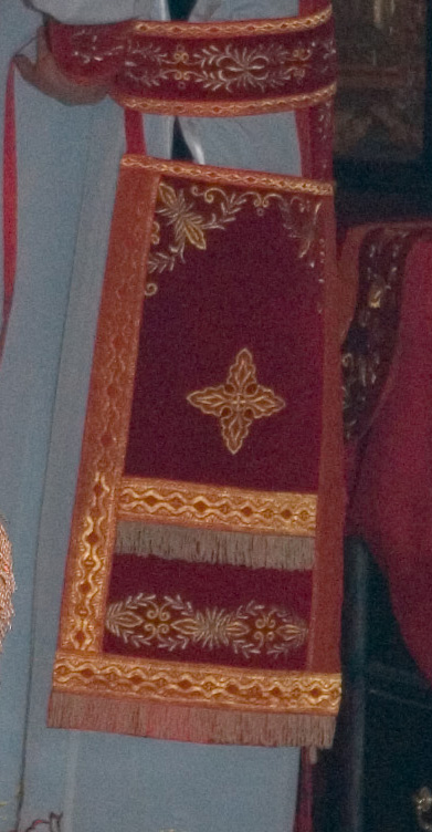 Nabredennik, part of the vestments of a Russian Orthodox priest .